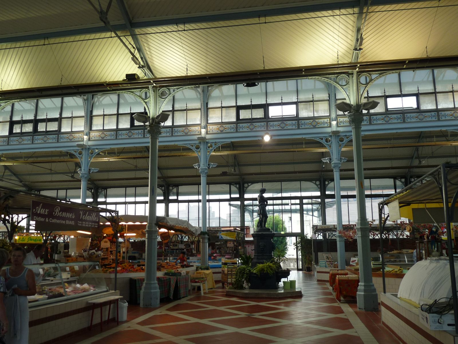 Market hall of Angoulême, Charente, SW France